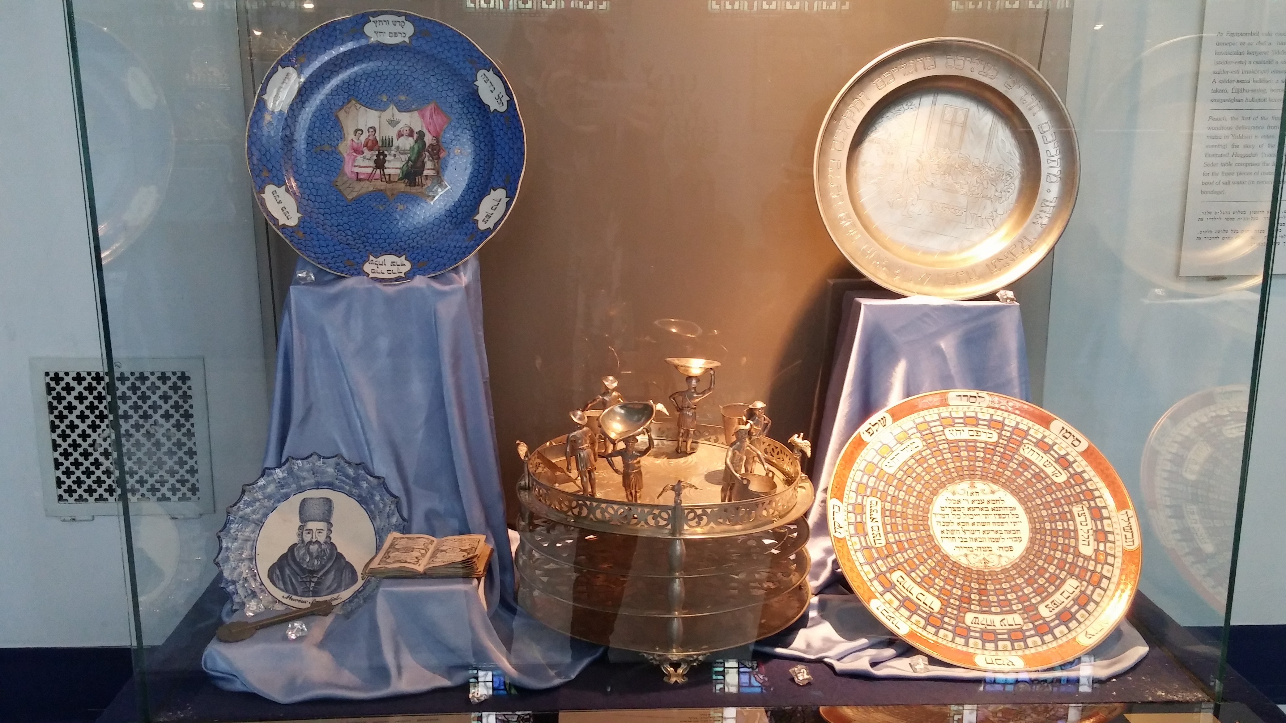 Passover Seder plate